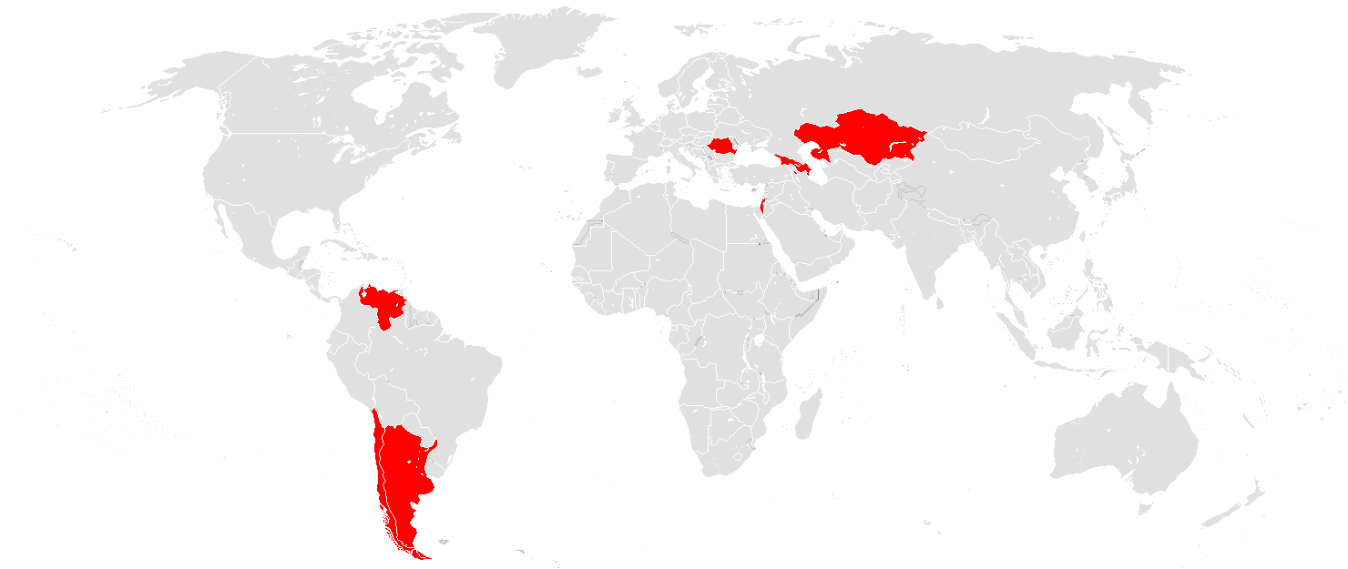 LAR-160 Operators as of 2013